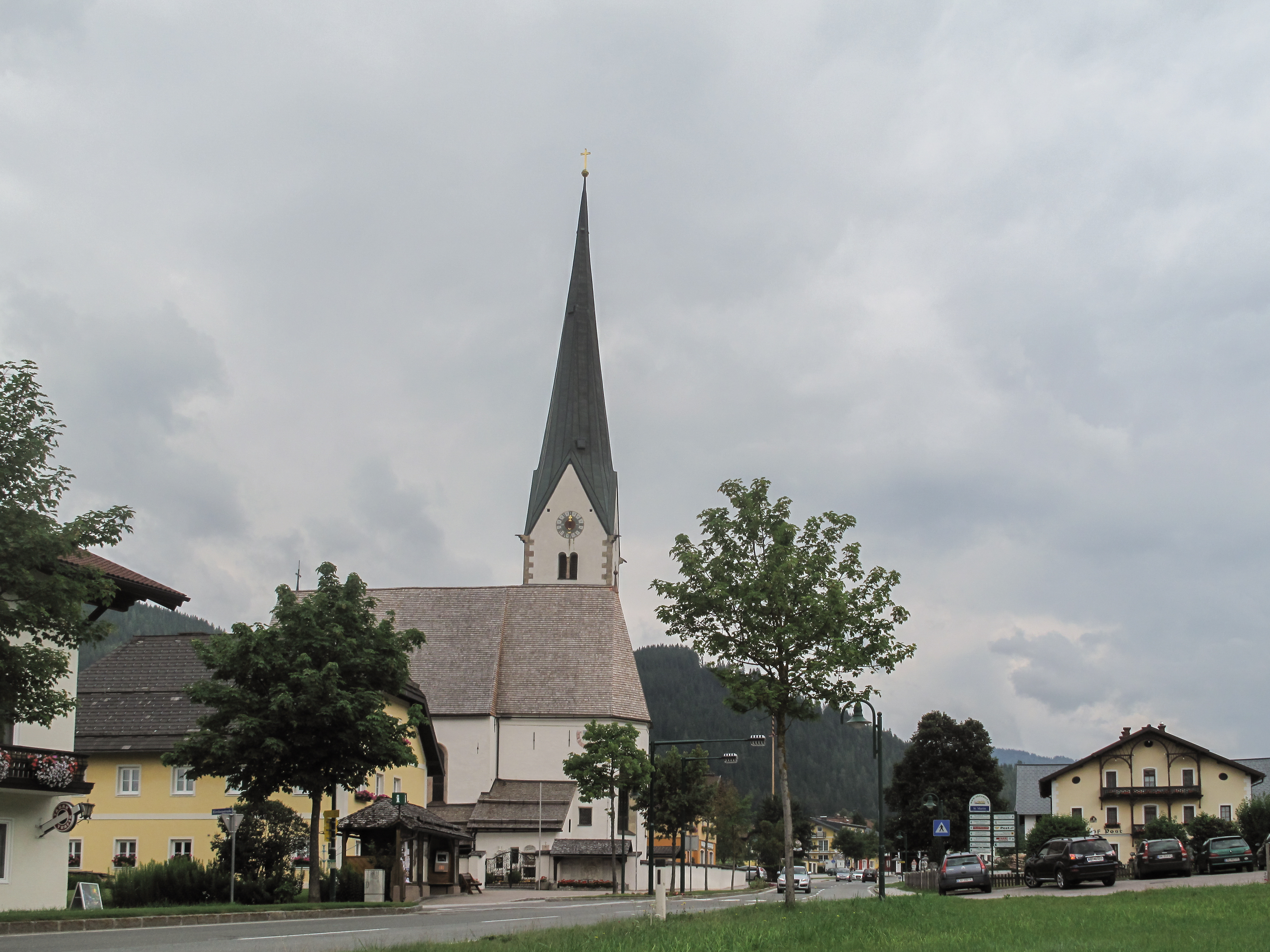 Sankt Martin am Tennengebirge, church in the street